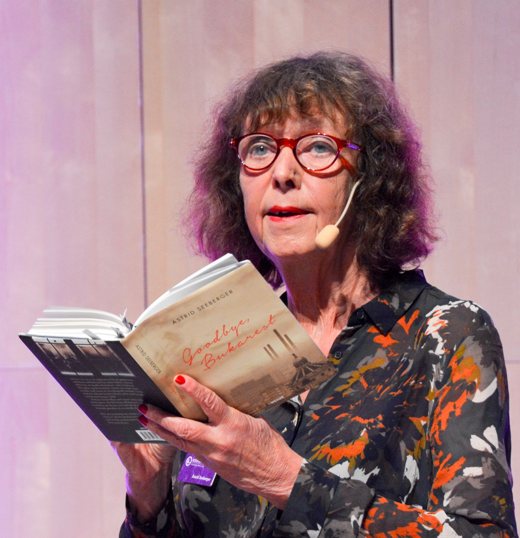 Astrid Seeberger reading at the 2017 Göteborg Book Fair.